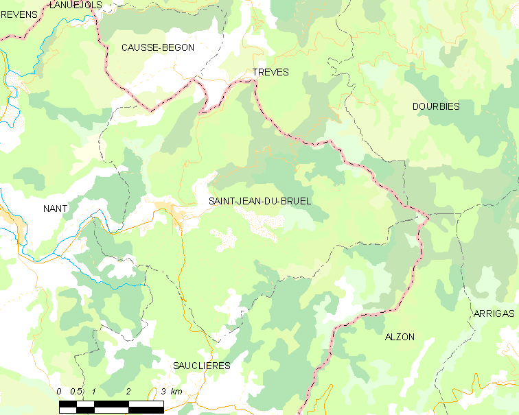 Map commune FR insee code 12231.png - Saint-Jean-du-Bruel